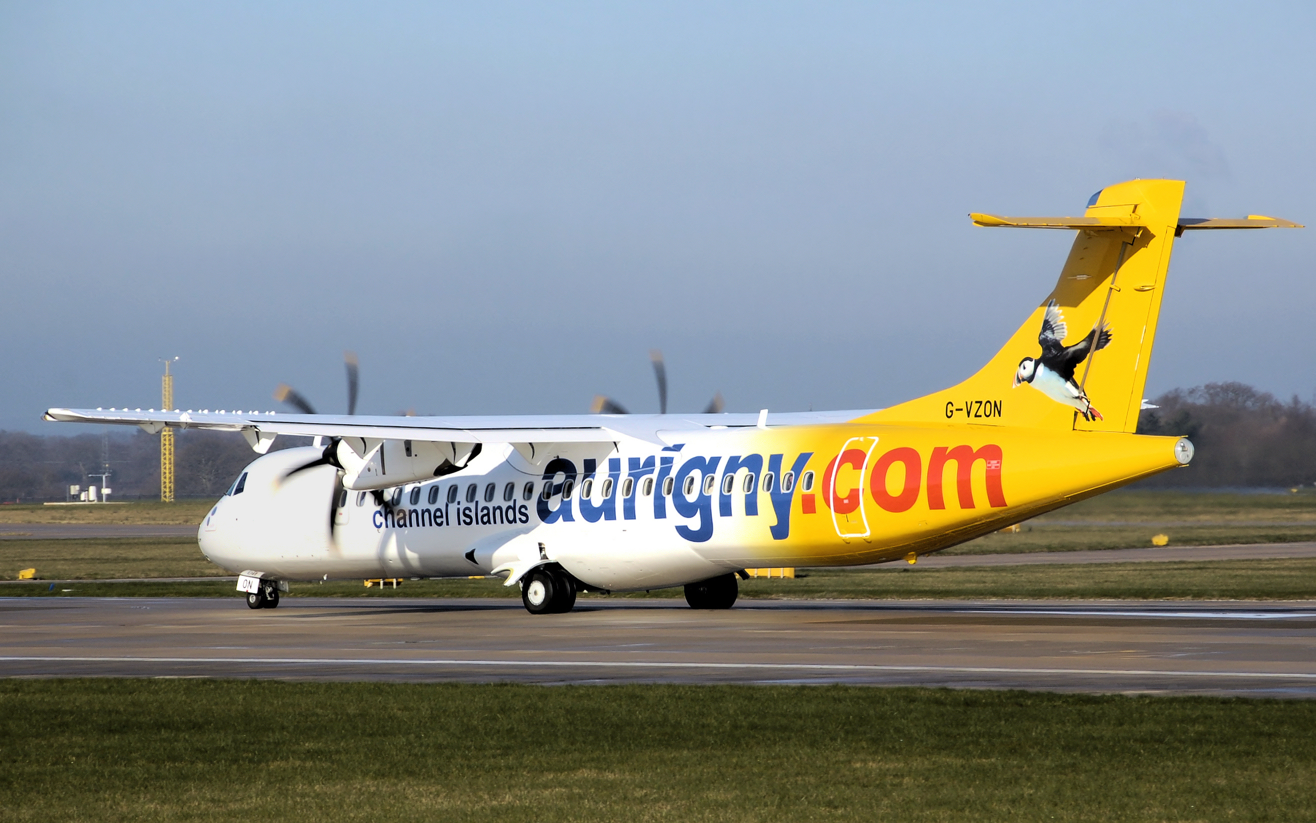 Aurigny Air Services ATR 72-212A (G-VZON) starts the takeoff run at Manchester Airport, England.